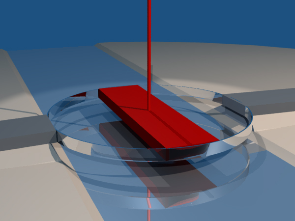 Opening bridge by rotating around the z-axis